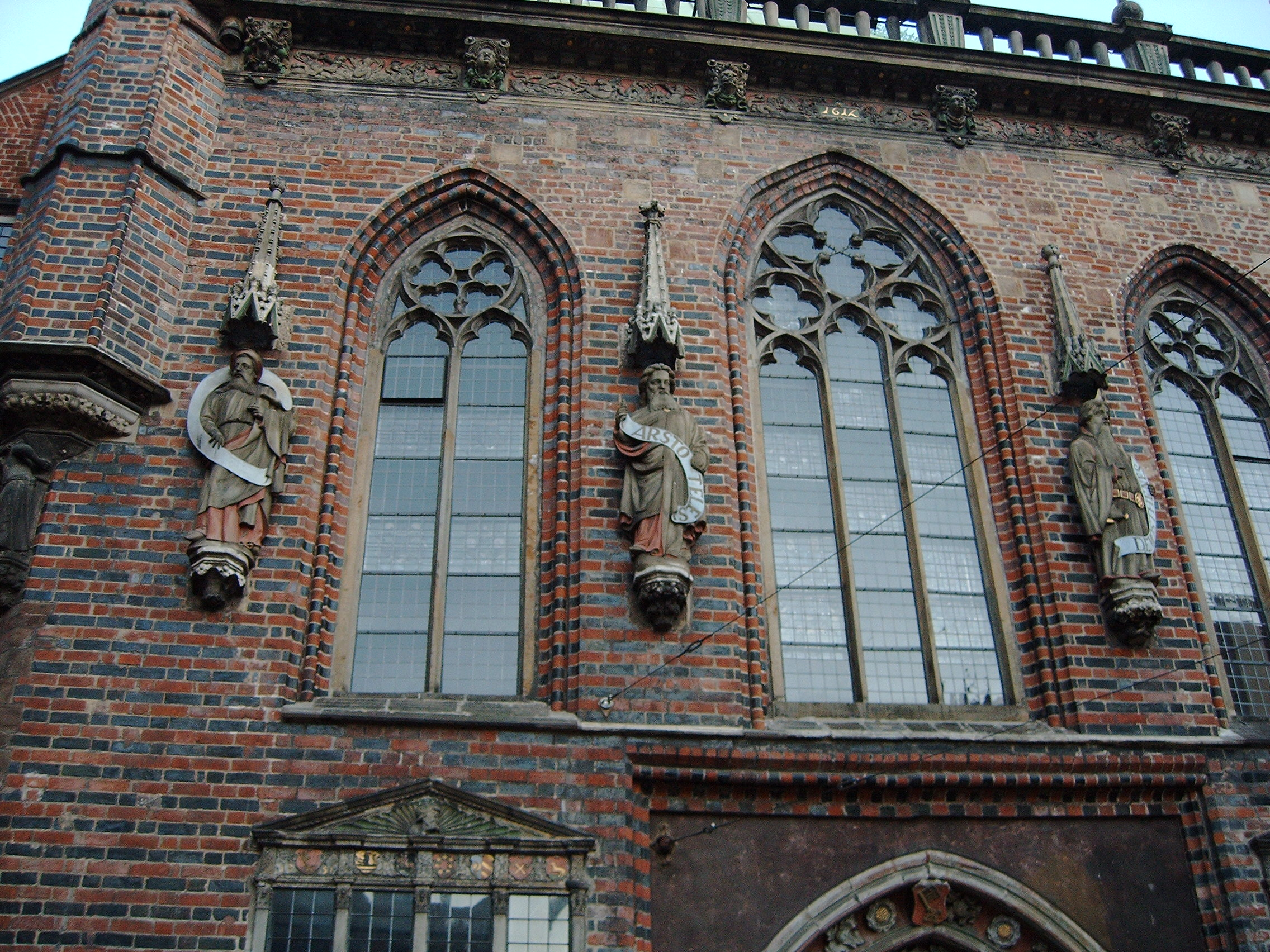 Images DownTown - Bremen City in Germany.